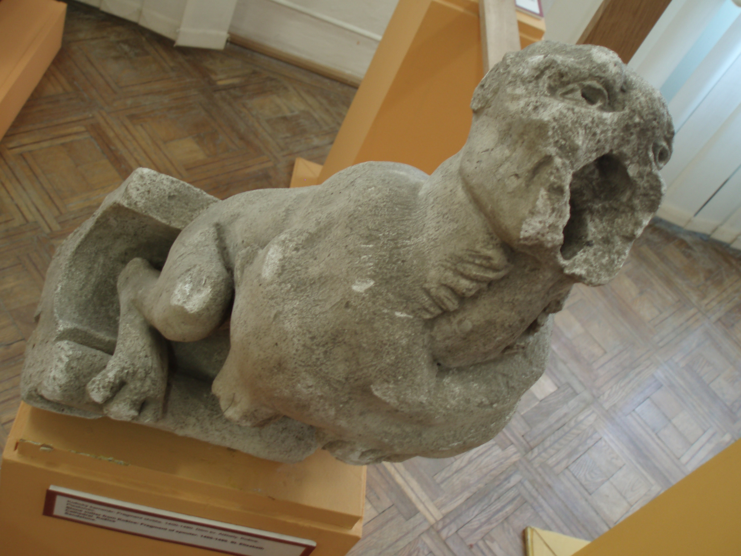 Original gargoyle of St.Elisabeth Cathedral in Košice, Slovakia